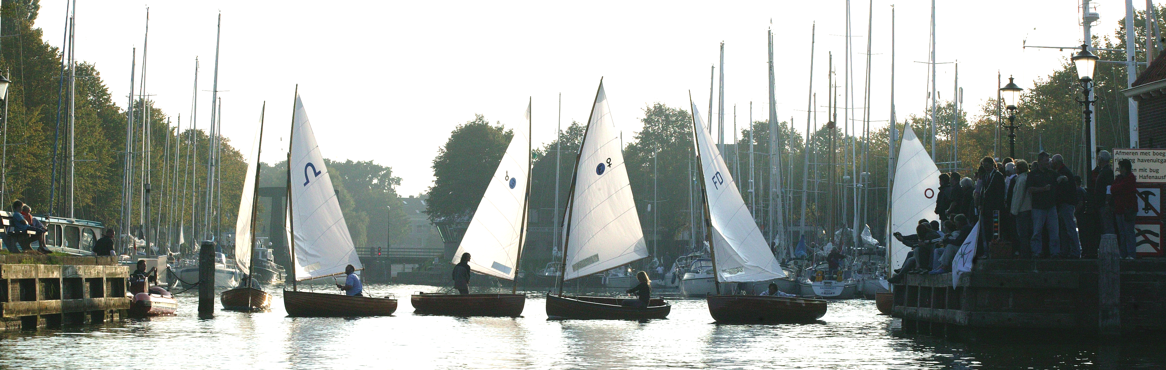 2008 Vintage Yachting Games VIP in harborrace